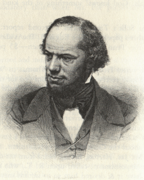 Engraving of American author/editor/critic Rufus Wilmot Griswold (1815 - 1857).